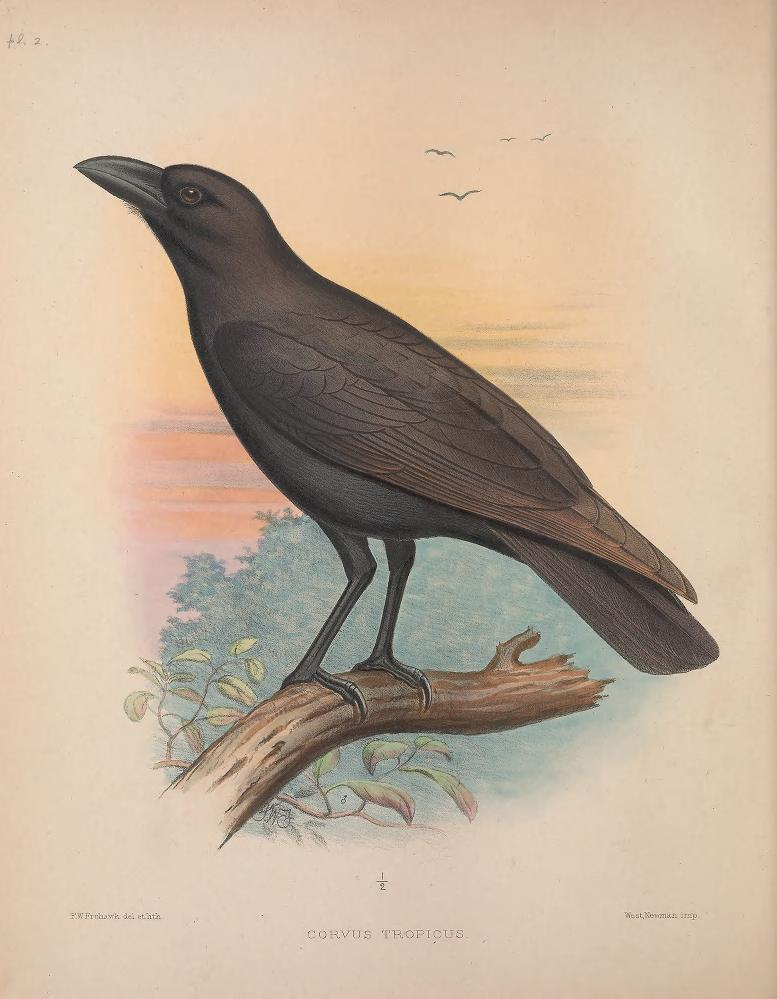 Corvus hawaiiensis from 'The Birds of the Sandwich Islands'